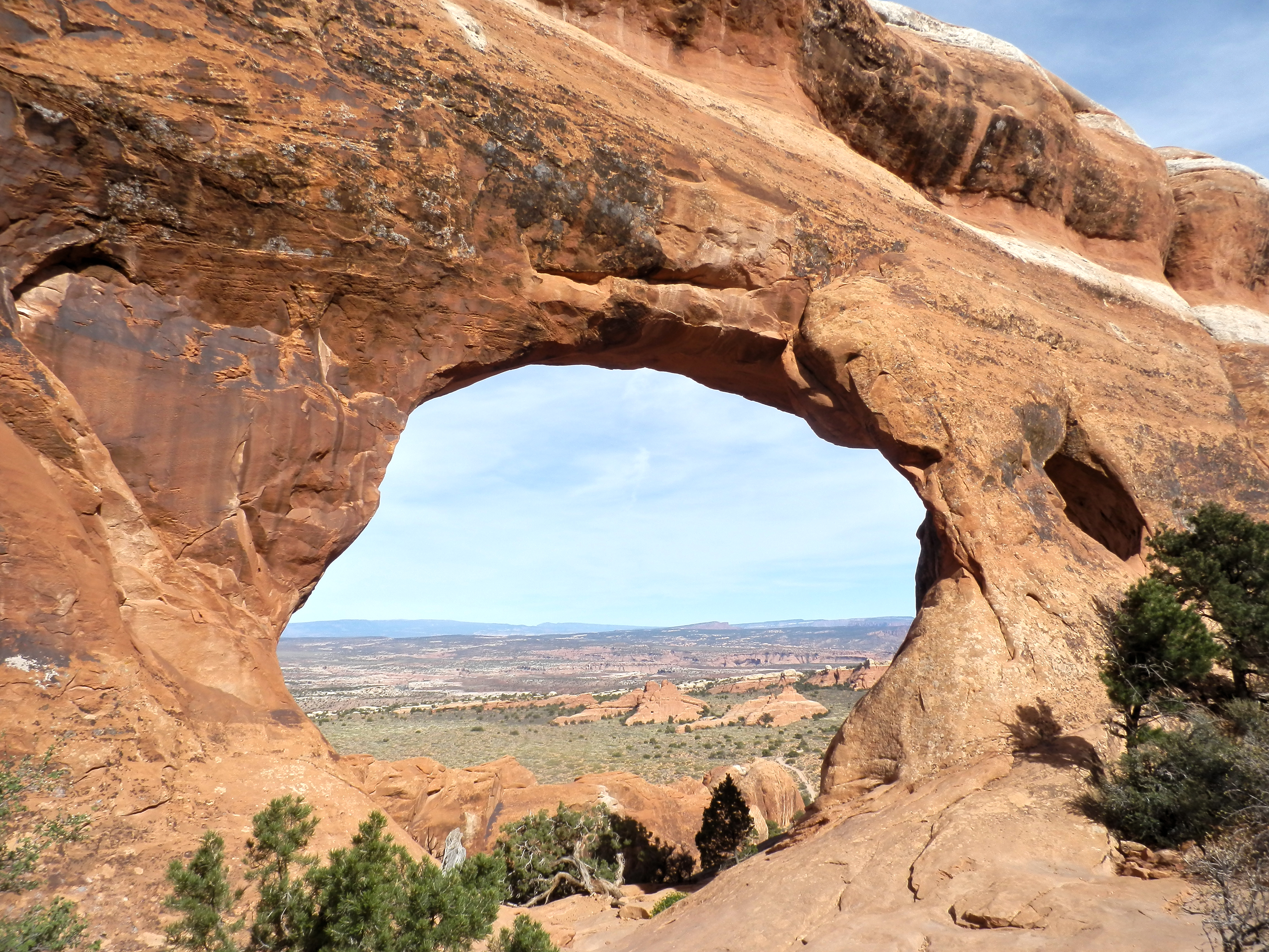 Arches Nationalpark Partition Arch